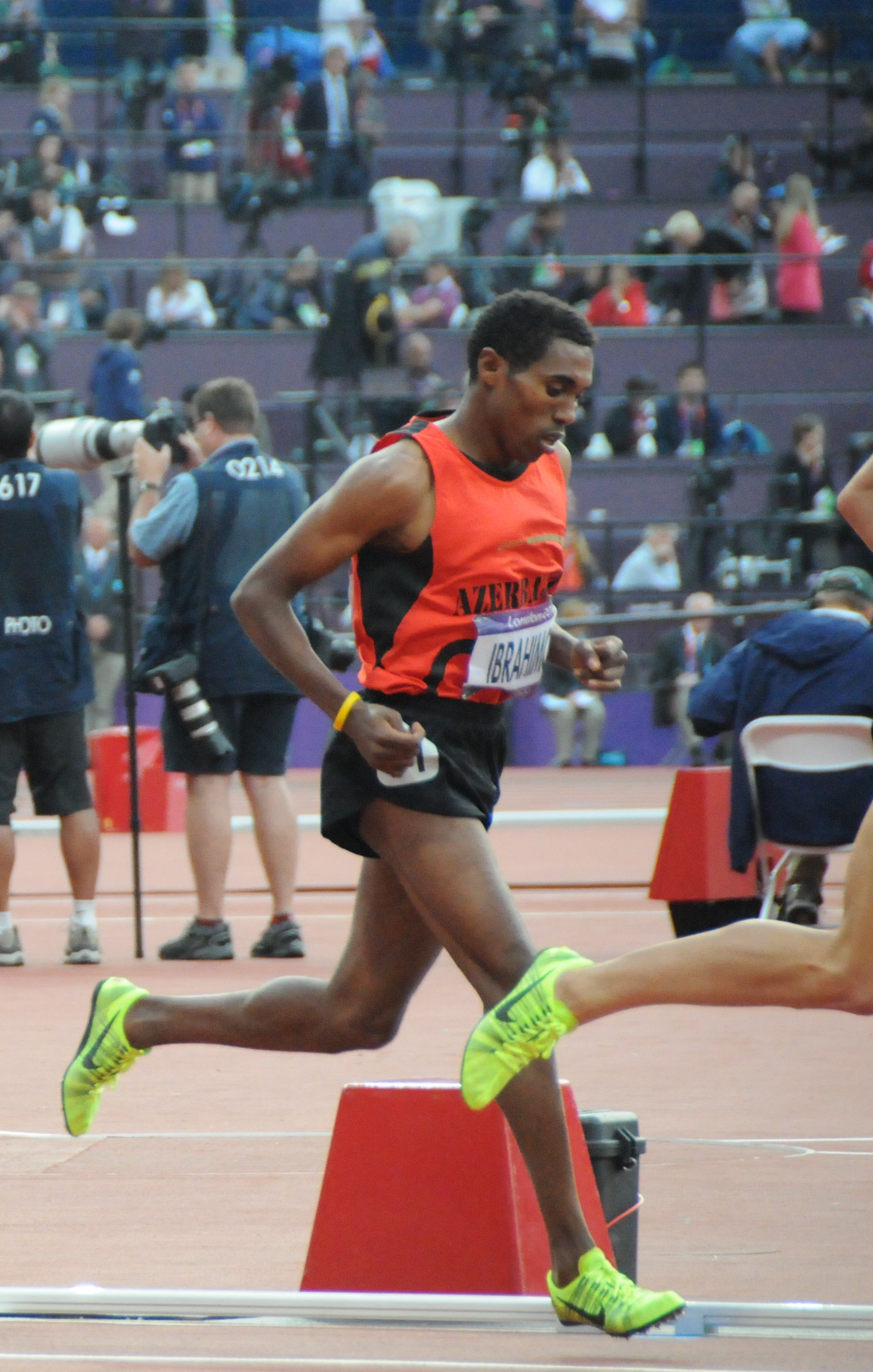 Hayle Ibrahimov from Azerbaijan at London 2012 Olympics